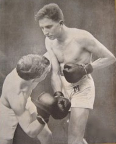 Argentine boxer Alfredo Copello. Olympic silver medal winner at 1924.